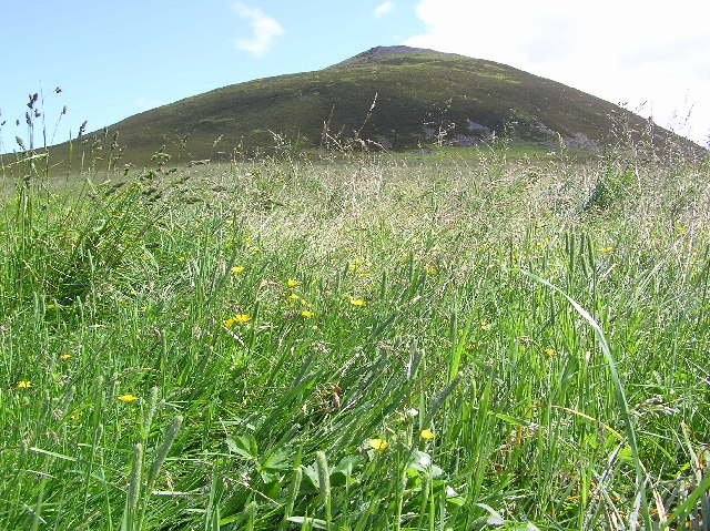 Tap o' Noth. On top of the Tap o' Noth is a large vitrified fort. The fort is oblong in shape and is approximately 100 m by 30 m.